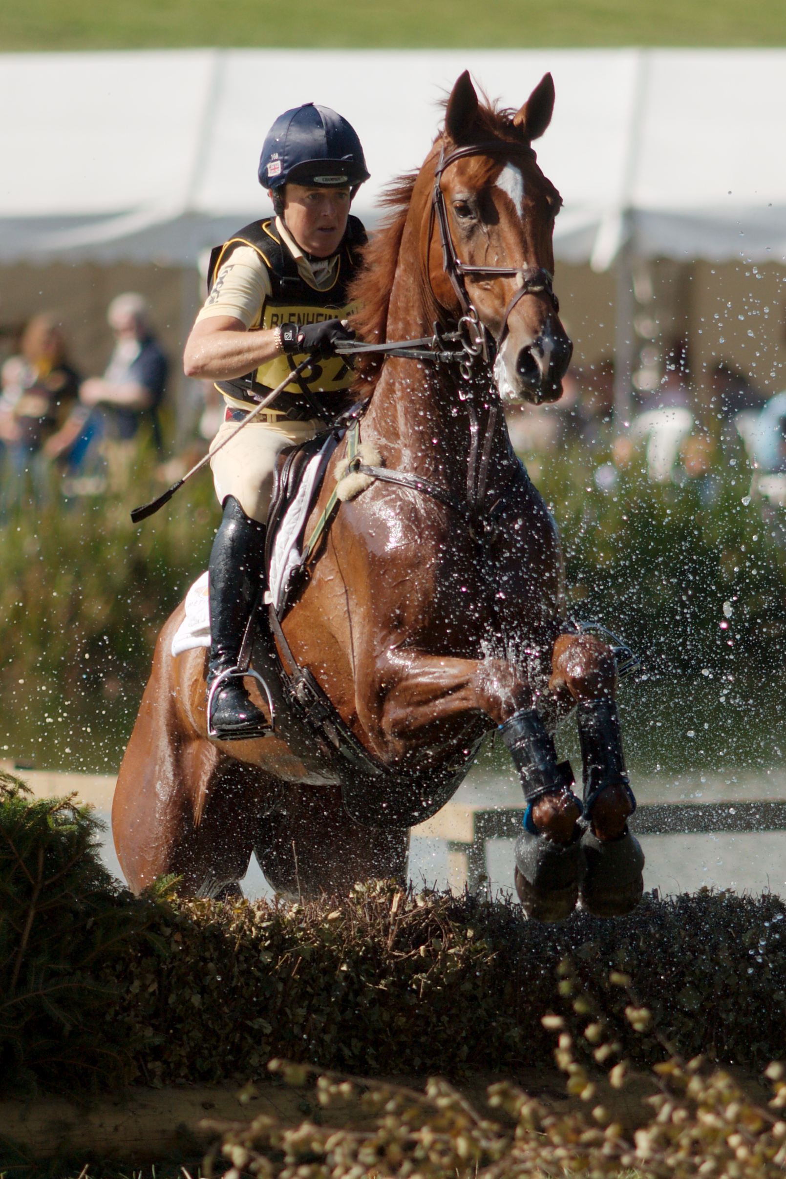 Pippa Funnell and Redesigned at the Ducks Nest during the cross-country phase of Blenheim Palace International Horse Trials 2009.